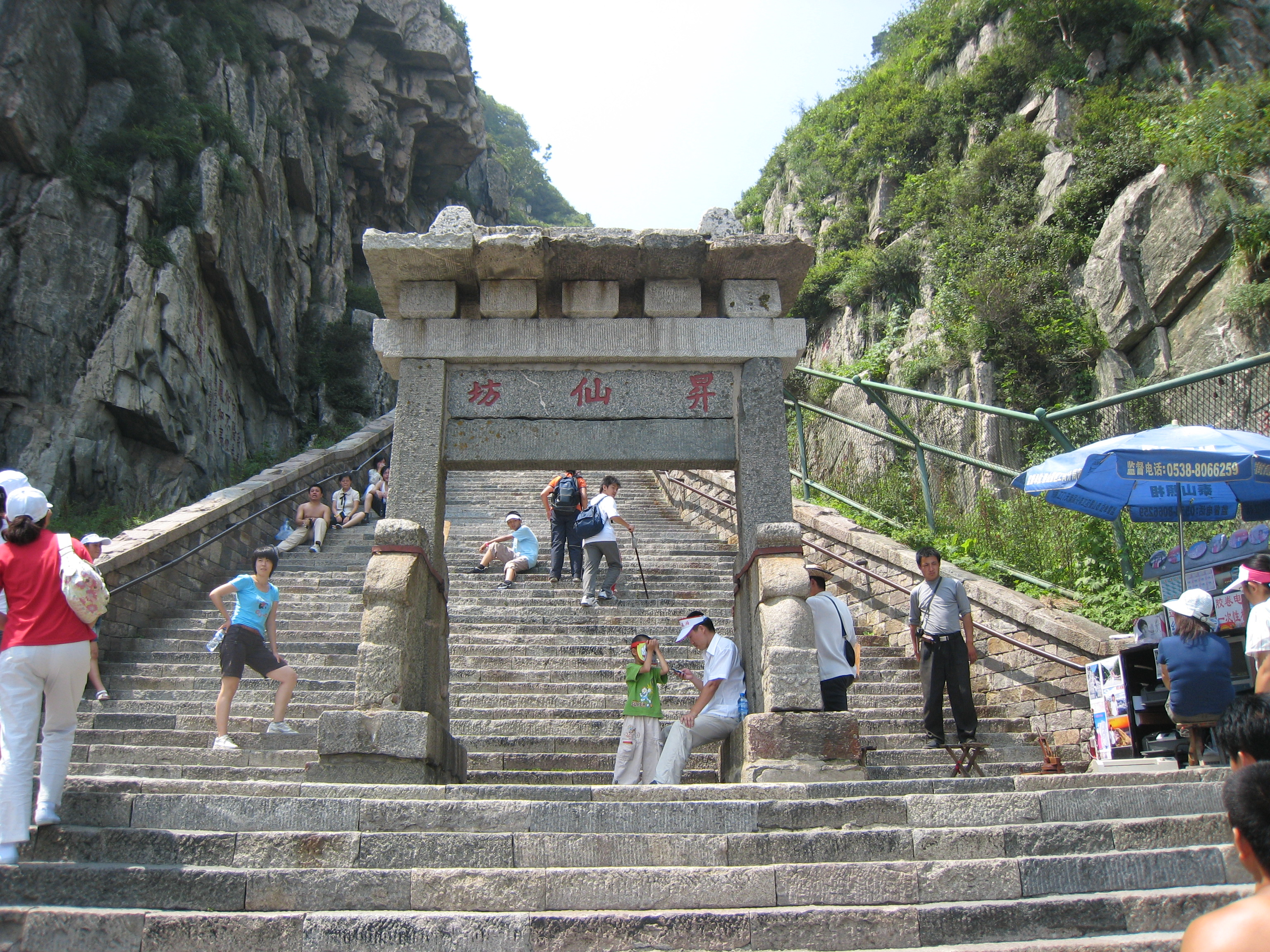 Taishan, Shandong